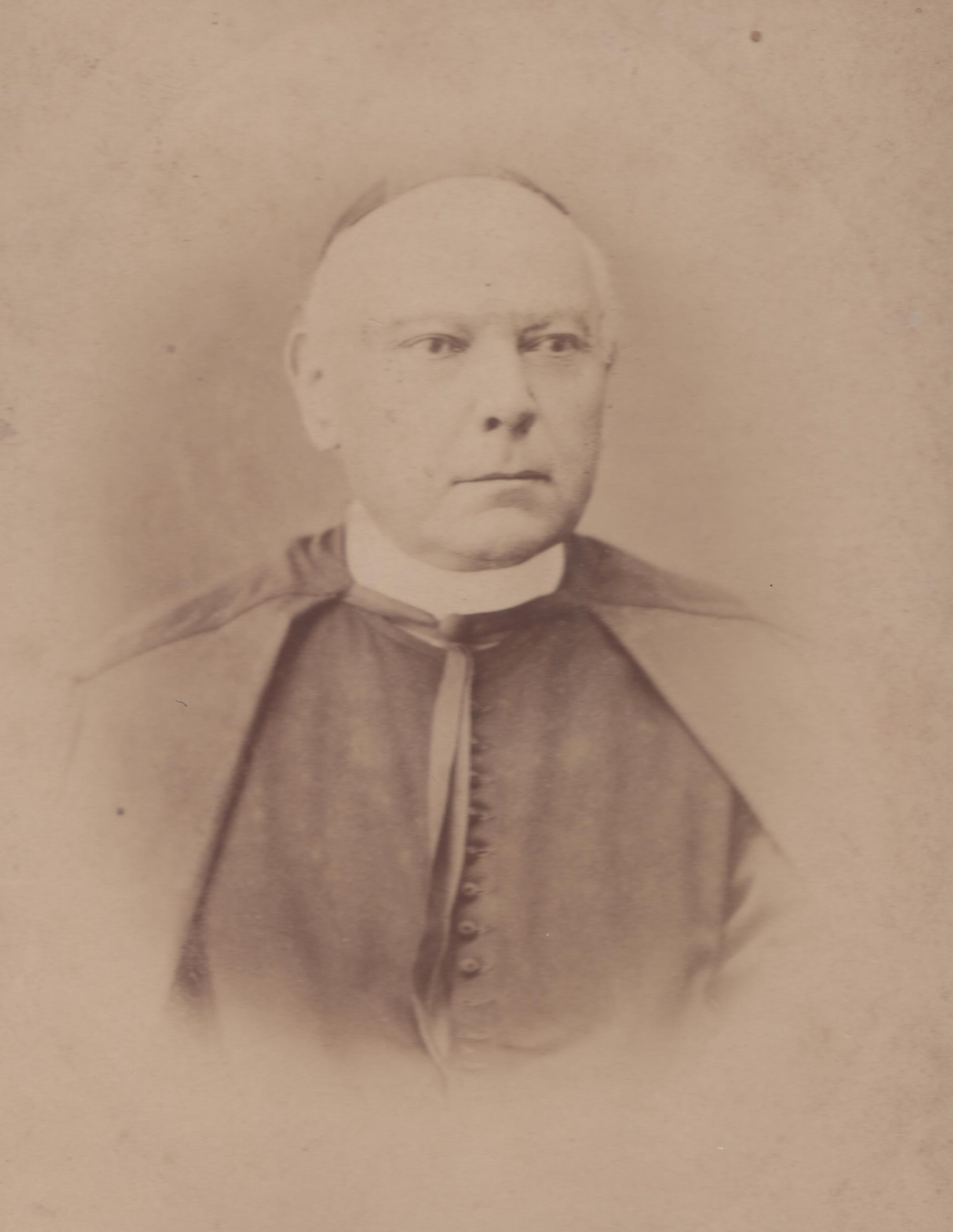 Abate Domenico Capitanio